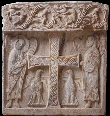 Parapet - plate from the church of the Saint Toma in Kuti near Herceg Novi, from XI century.